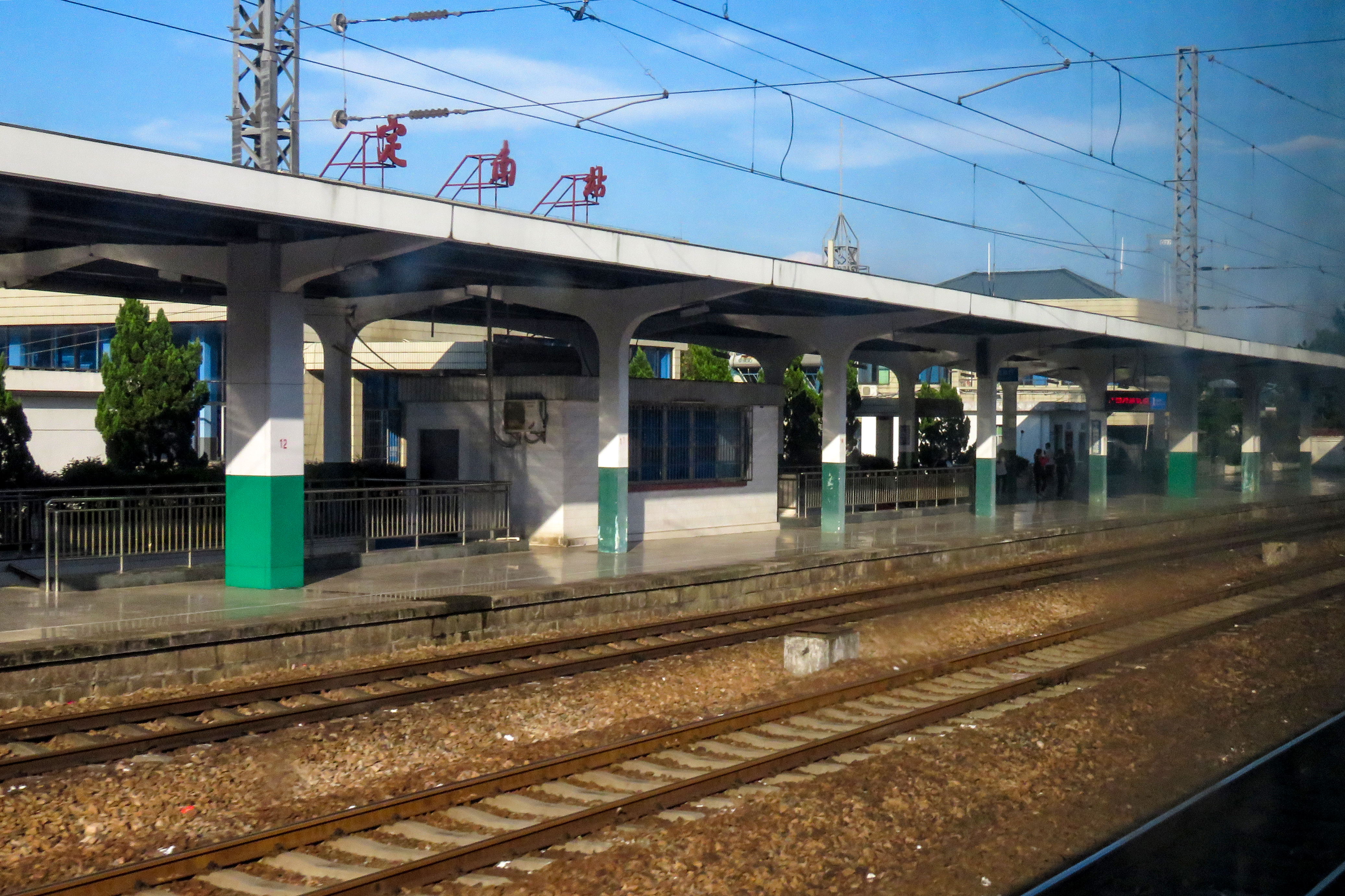 Welcome to CR Nanchang...